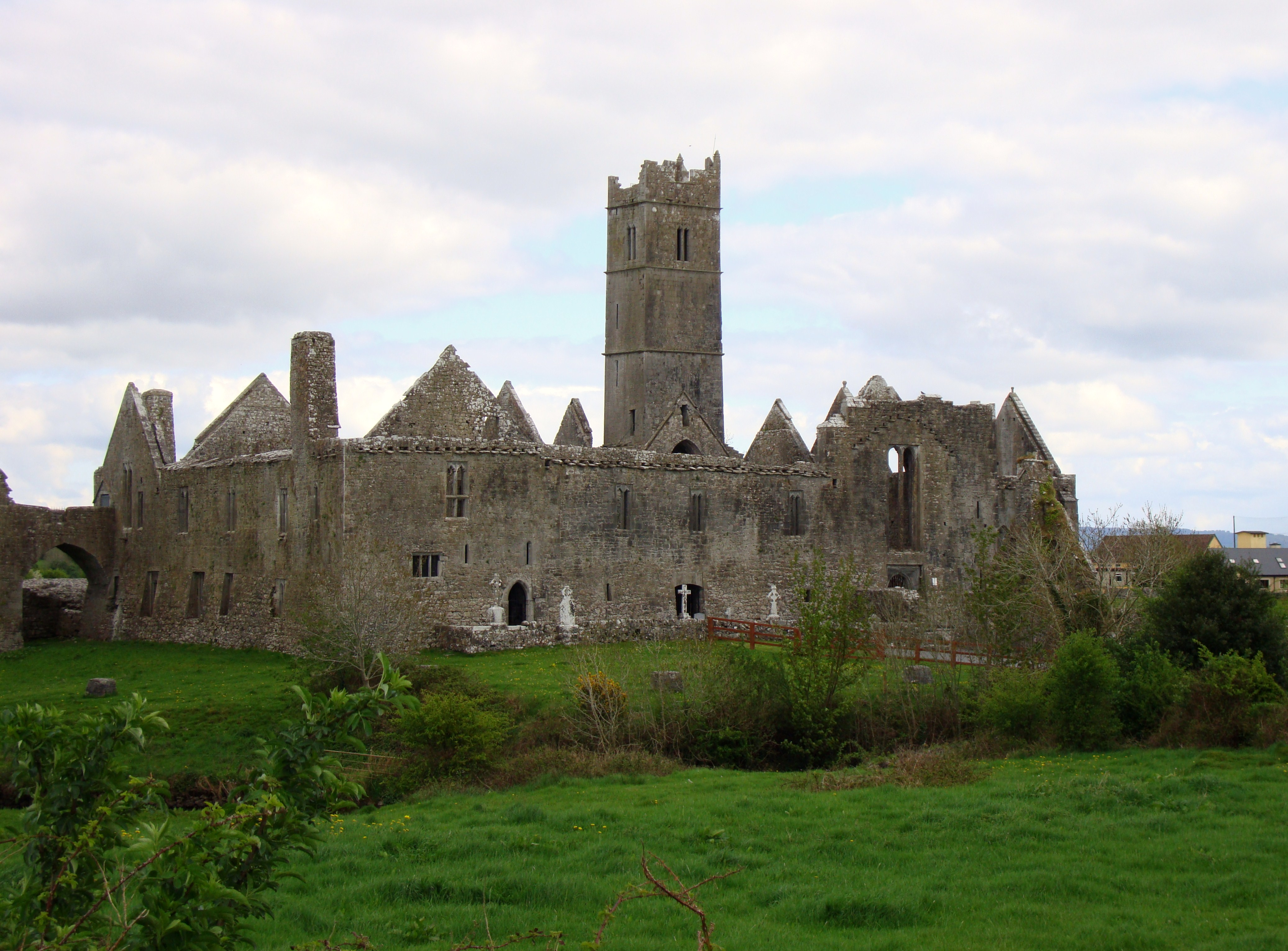 Photograph of the remains of Quin Abbey, Co. Clare, Ireland